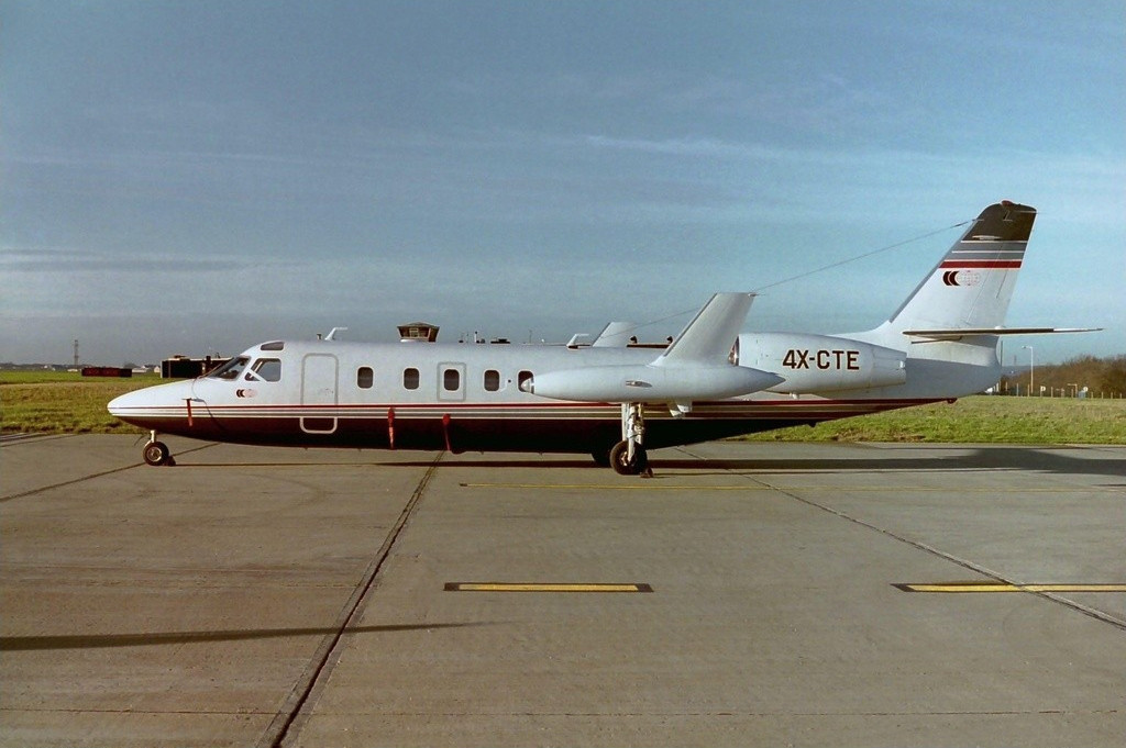 4X-CTE, Israeli Aircraft Industries IAI-1124 Westwind, at London Luton (LTN).